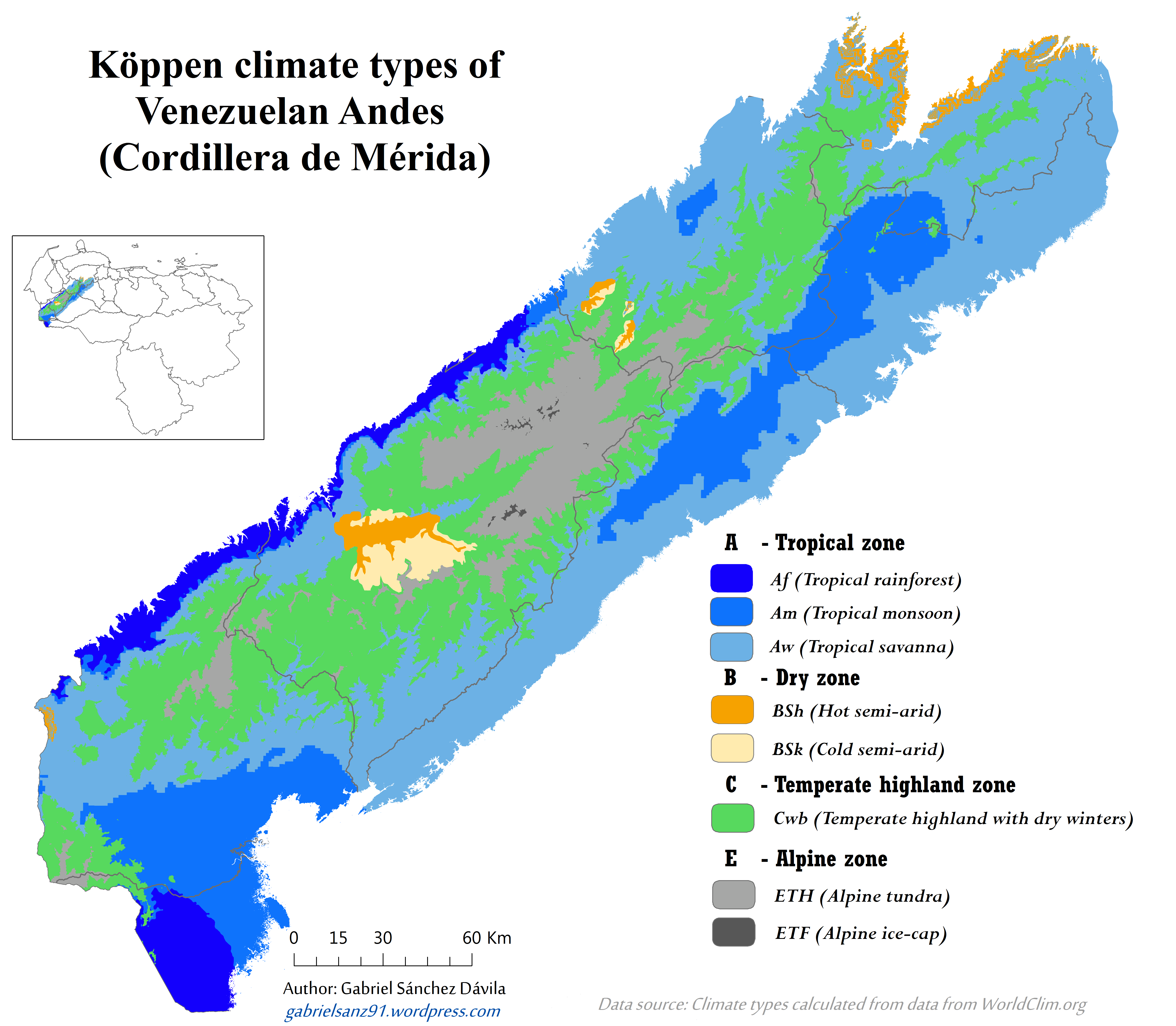 Köppen climate types of Cordillera de Mérida (Venezuelan Andes)